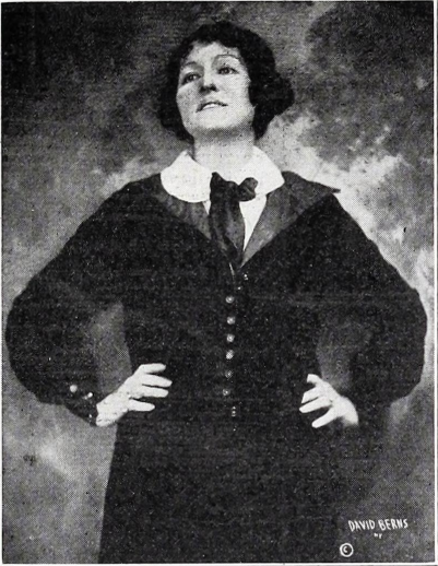 Photograph of author and film scenarist Pearl Doles Bell